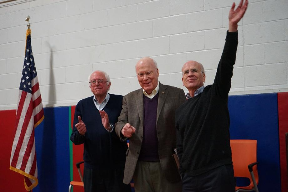 Item 7 / 18 The congressional delegation spoke with Vermonters about the massive budget cuts proposed by President Trump, the gutting of environmental enforcement and Republican efforts to repeal the Affordable Care Act.